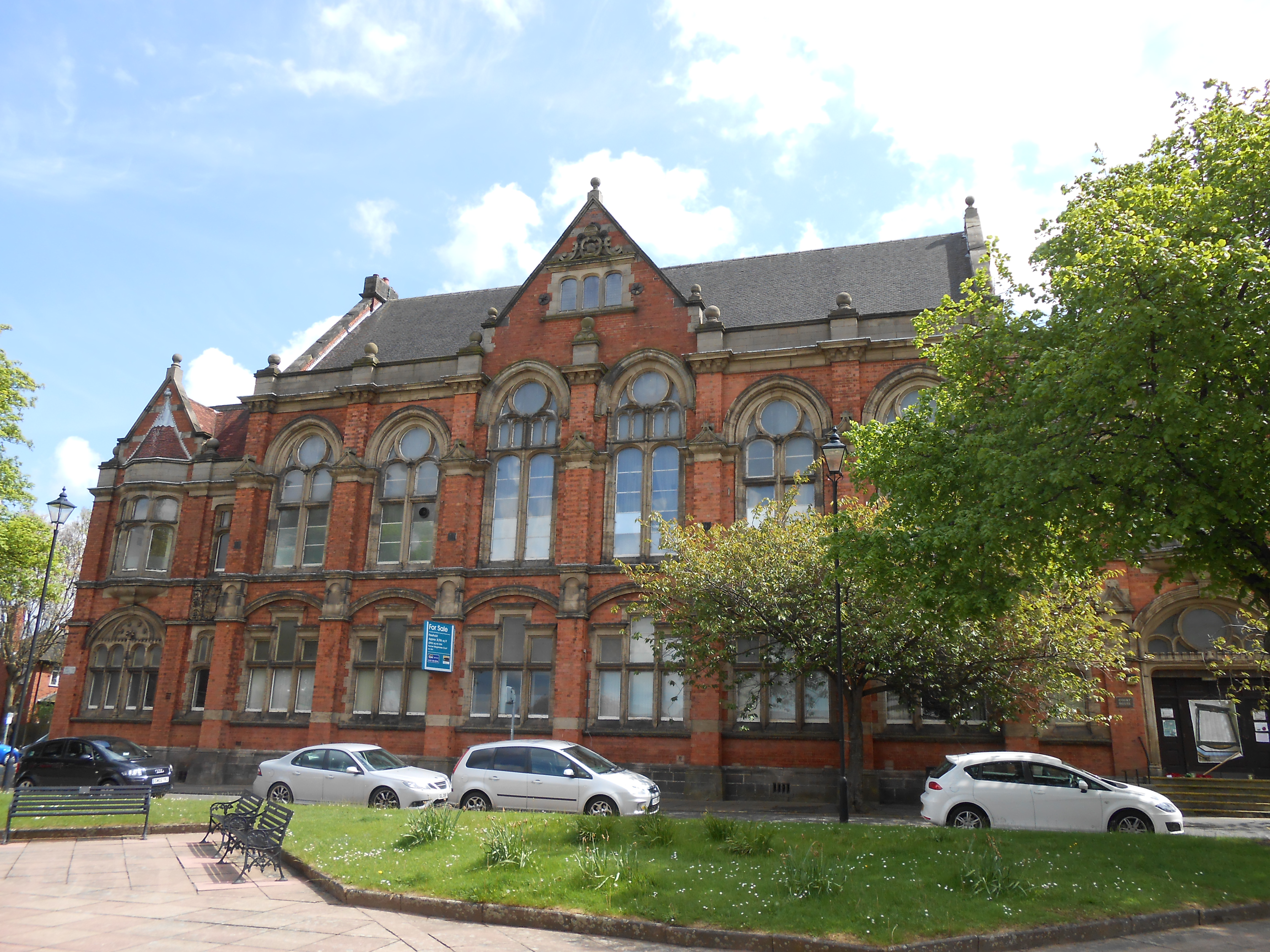 The old Town Hall, Albert Square, Fenton, Stoke-on-Trent, England.